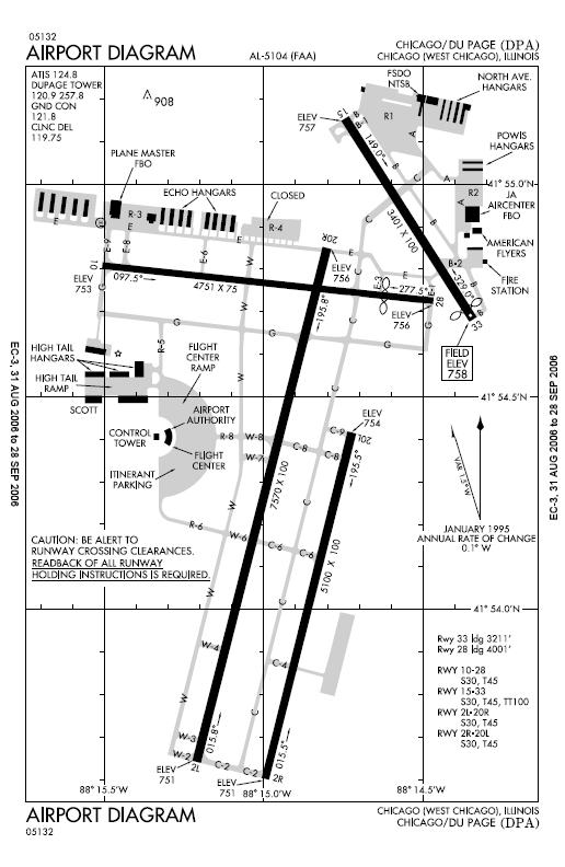 FAA diagram of DuPage Airport (DPA) in West Chicago, Illinois. Note: this URL changes monthly; the airport article should contain a link to the current FAA diagram. Produced by the National Aeronautical Charting Office (NACO), a department of the Federal Aviation Administration (FAA).